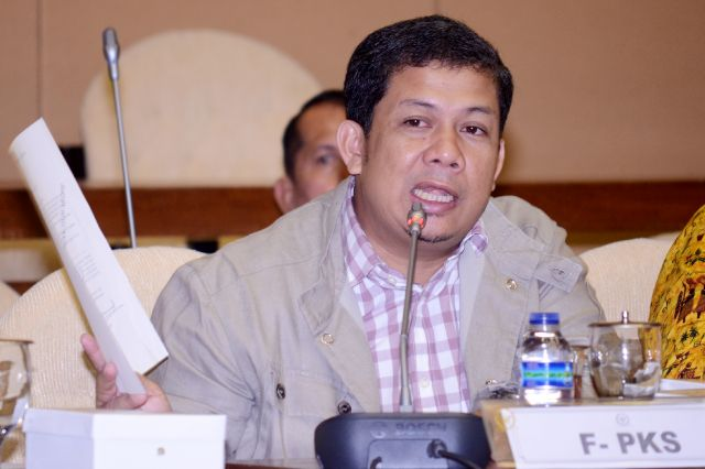 Fahri Hamzah